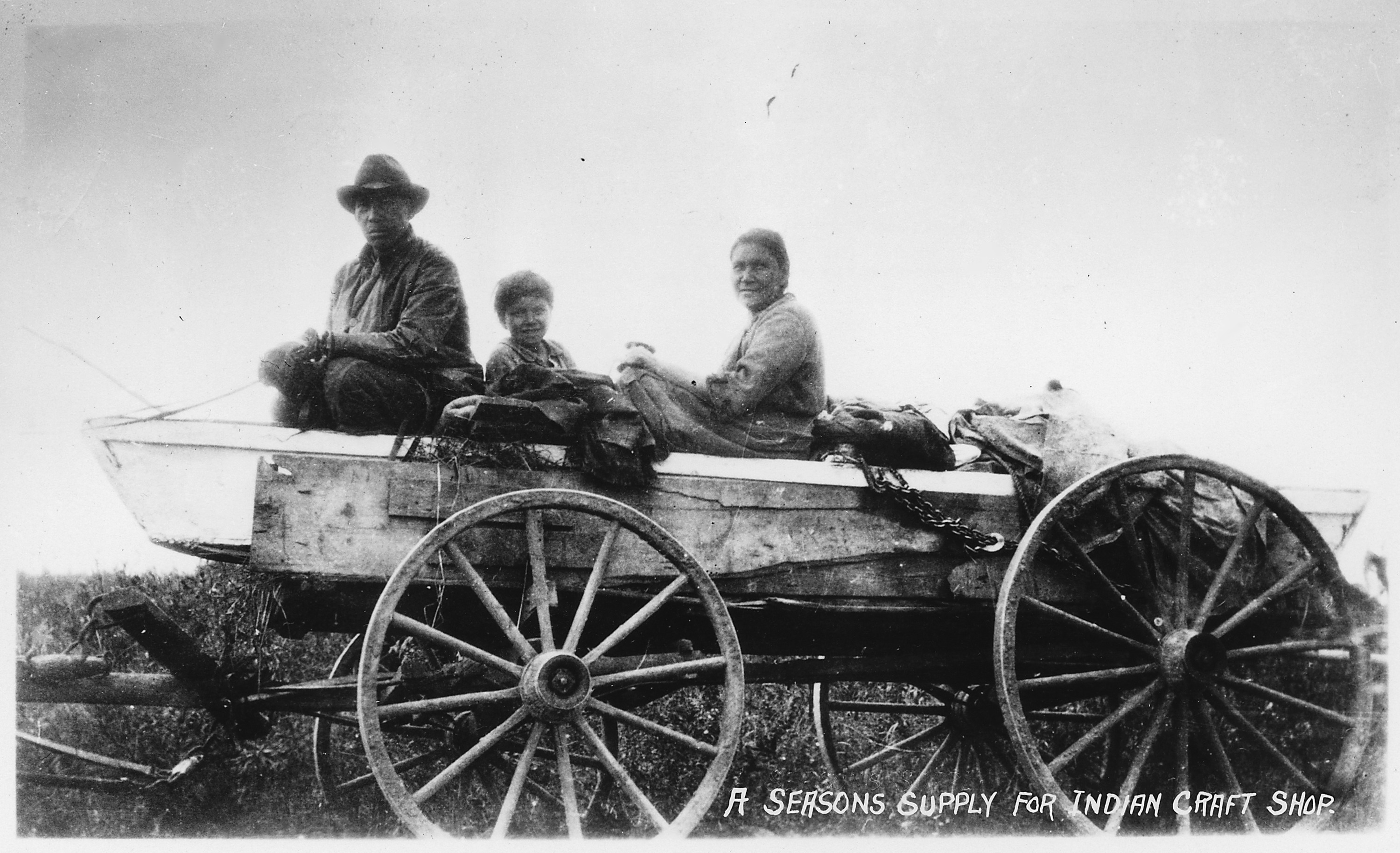 Scope and content: "White Earth gardens: a season's supply for Indian craft shop."